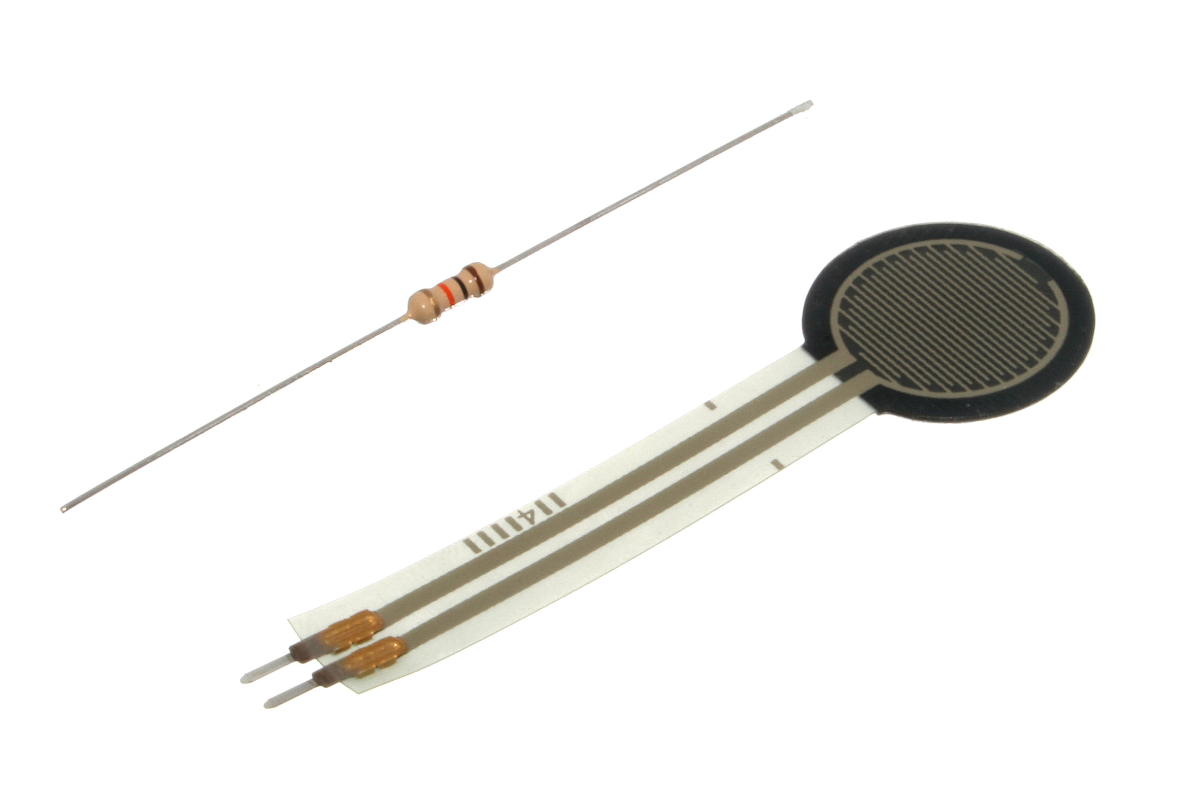 Interlink Electronics FSR 402 Force-Sensing Resistor.